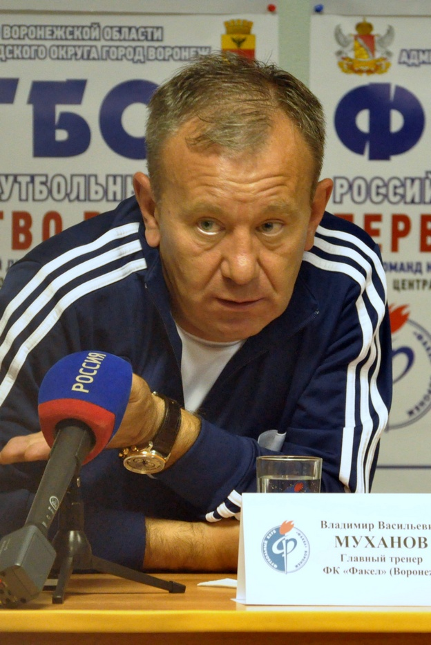 Vladimir Mukhanov couch FC Fakel Voronezh